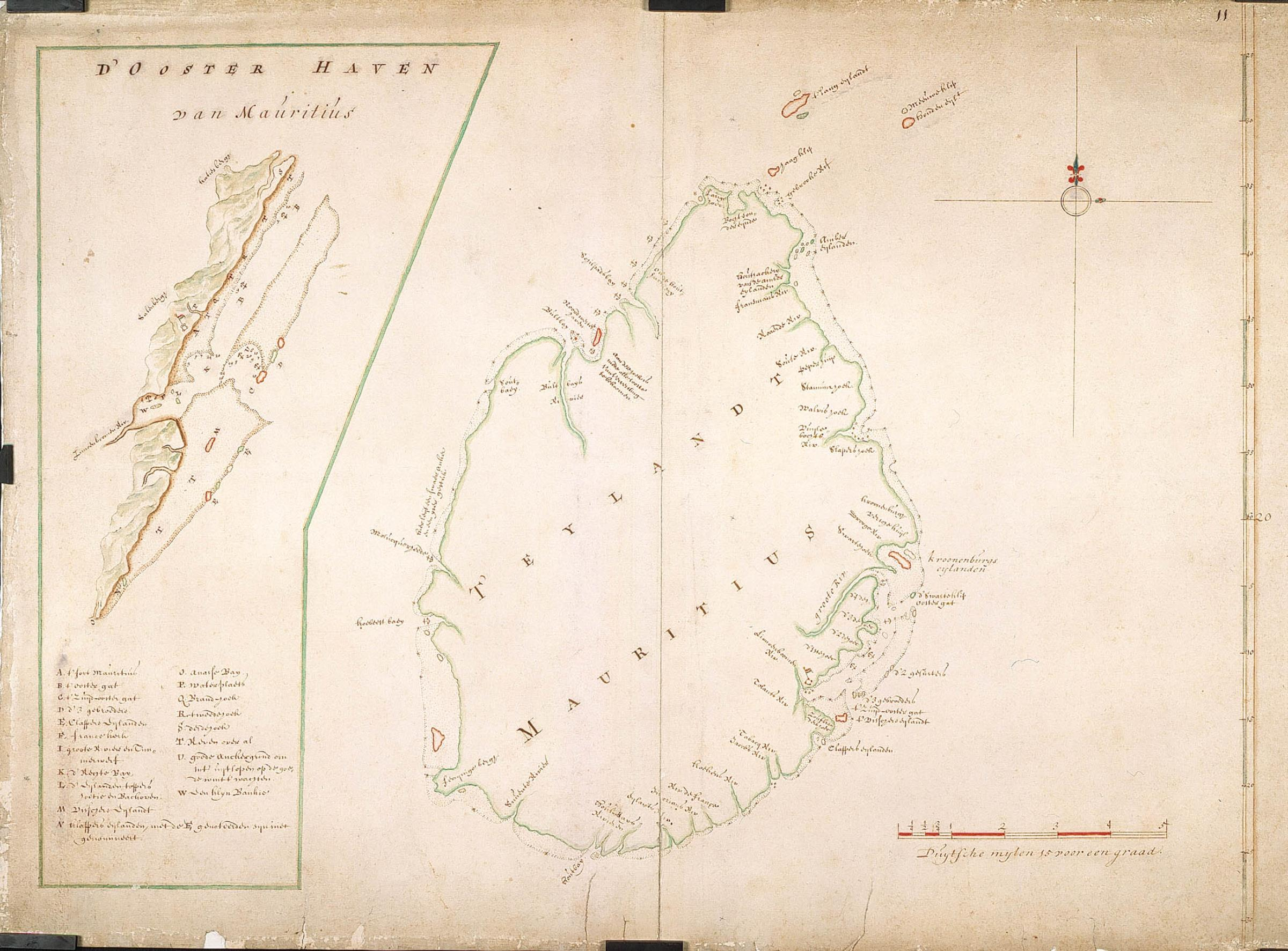 According to the Leupe catalogue (NA) the original title reads: Kaart van 't Eyland Mauritius. Key: A-W